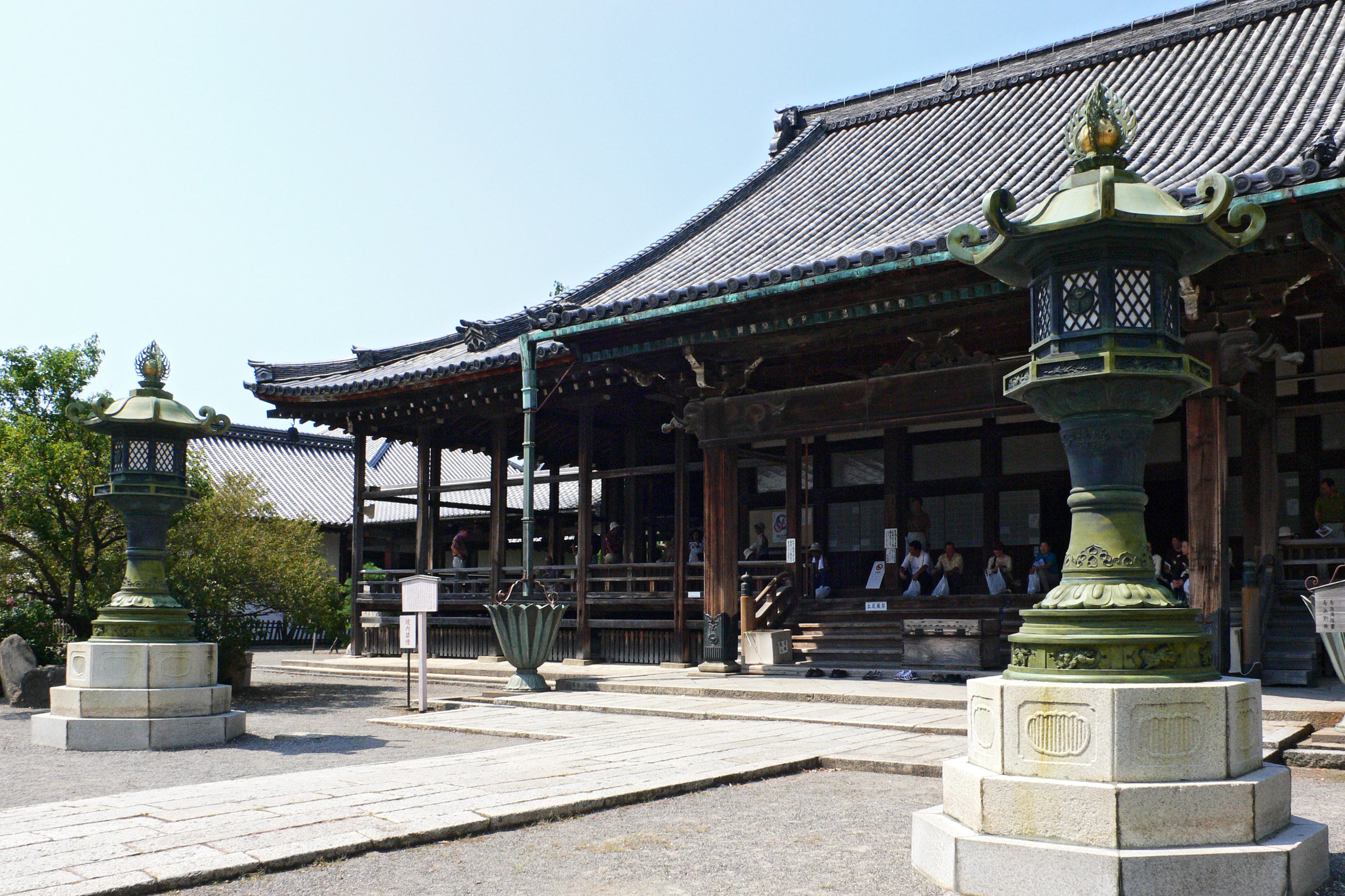 Daitsuji in Nagahama, Shiga prefecture, Japan